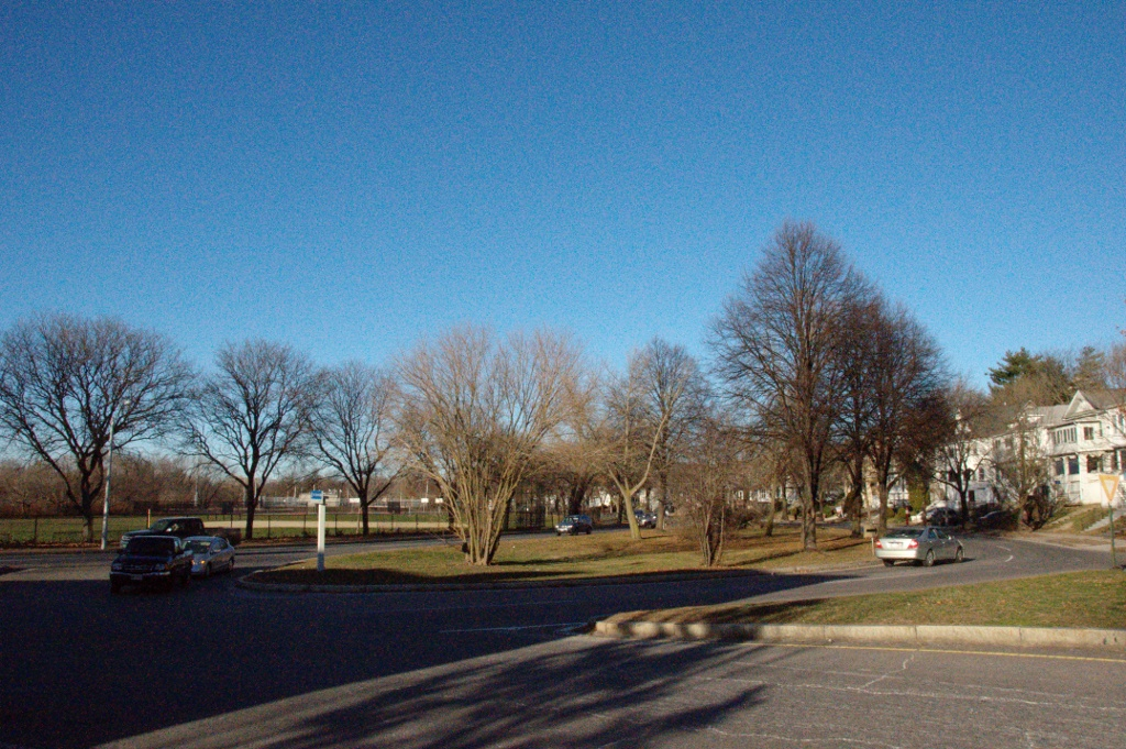 A photograph of the historic Alewife Brook Parkway, at its intersection with Powder House Boulevard in Somerville, Massachusetts.